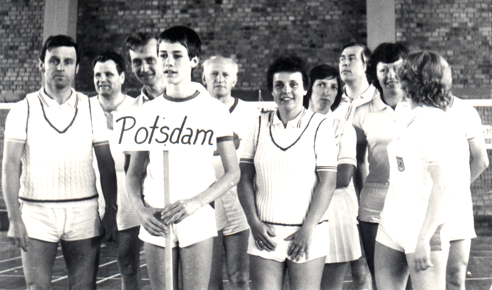 Team BC Potsdam 1984